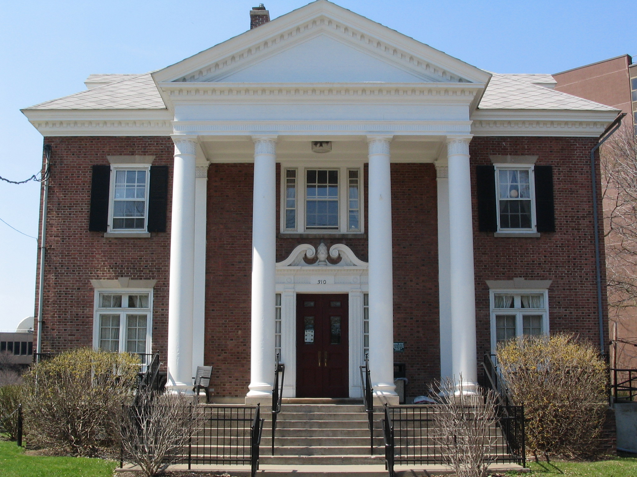 This is an image of the Slutzker Center that I took with my digital camera. This building is located on Syracuse University.